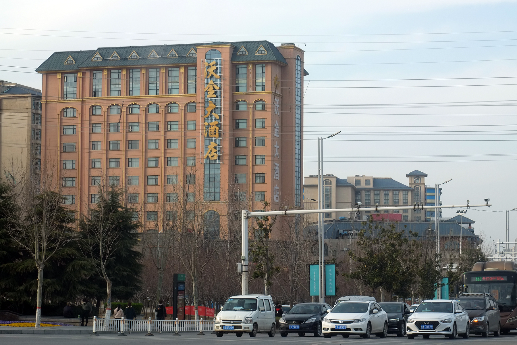 郑州航空港区沃金大酒店